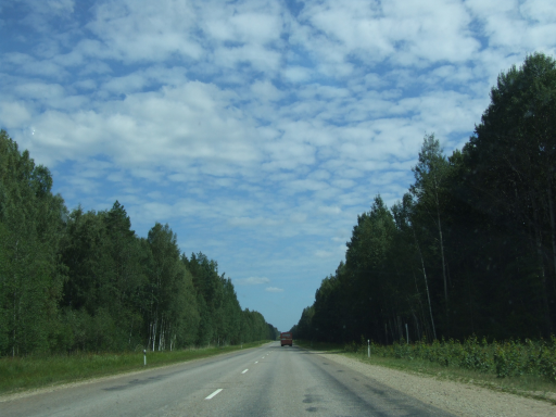 Driving a state first class road, P27, Latvia